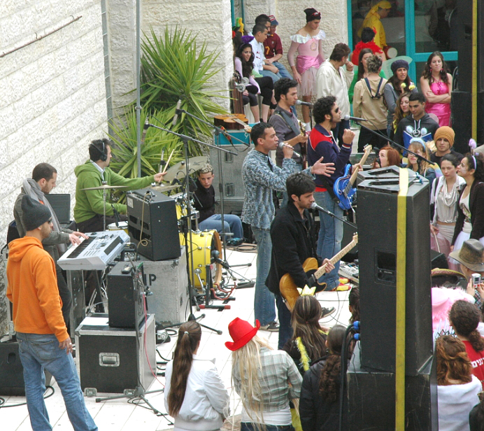 HaDorbanim performance